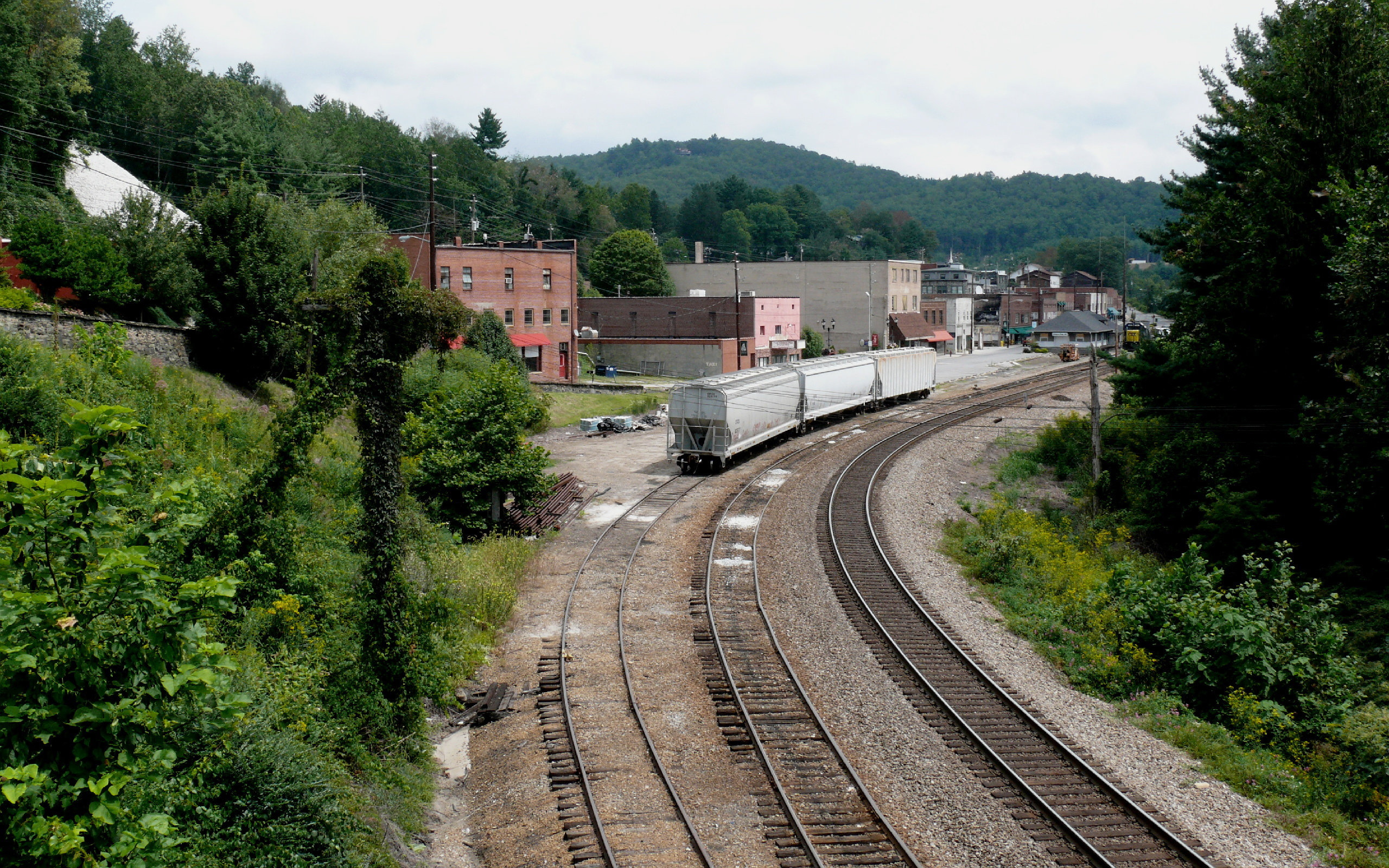 The CSX railroad and the old train station (on the right side of the photo, next to the tracks) in historic downtown Spruce Pine. Photo taken with a Panasonic Lumix DMC-FZ50 in Mitchell County, NC, USA.